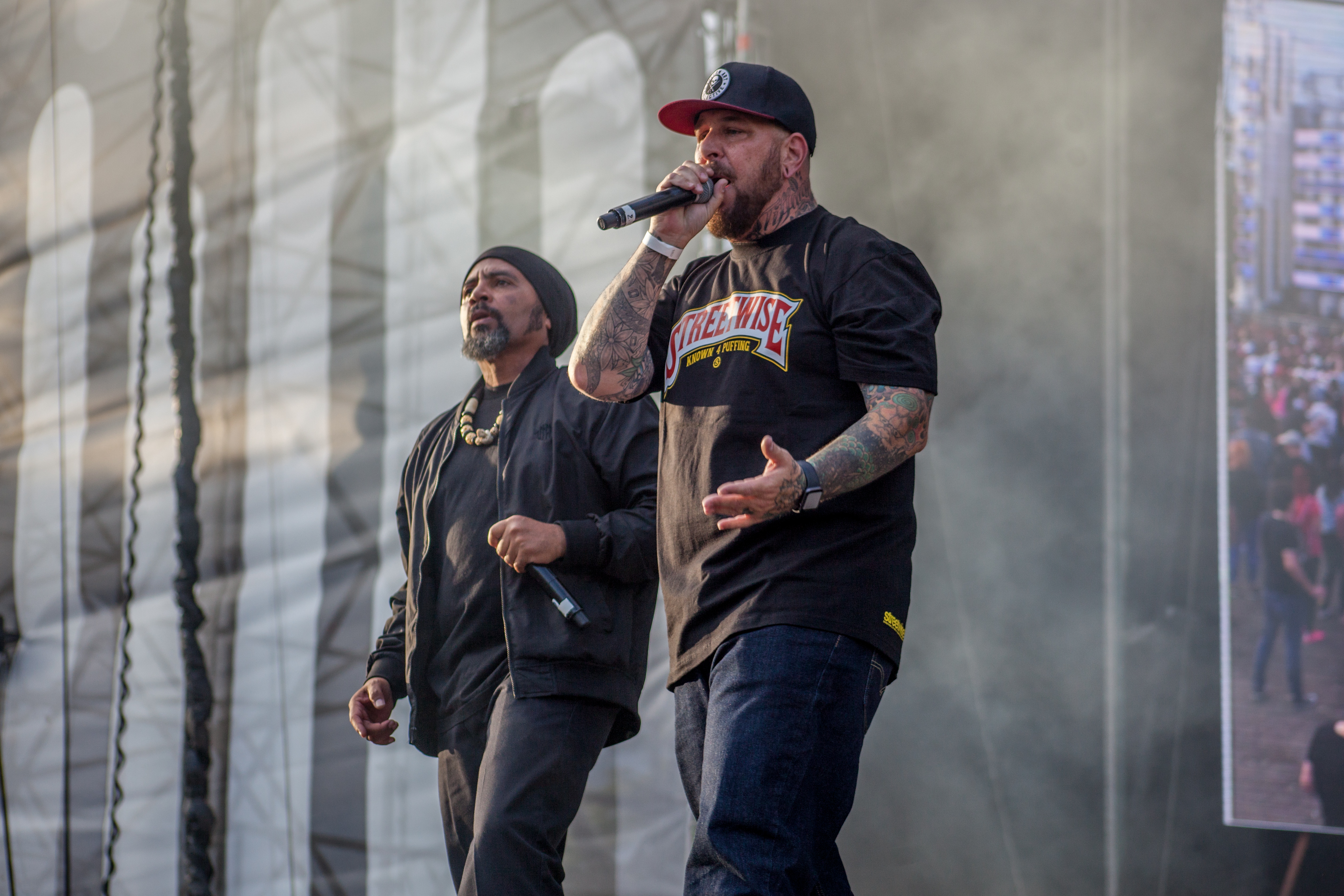 Ives Irie and Kemo The Blaxican of the Delinquent Habits, hip hop music group from the United States performing at electronic music festival Beats for Love (Ostrava, Czechia) on 5 July 2019